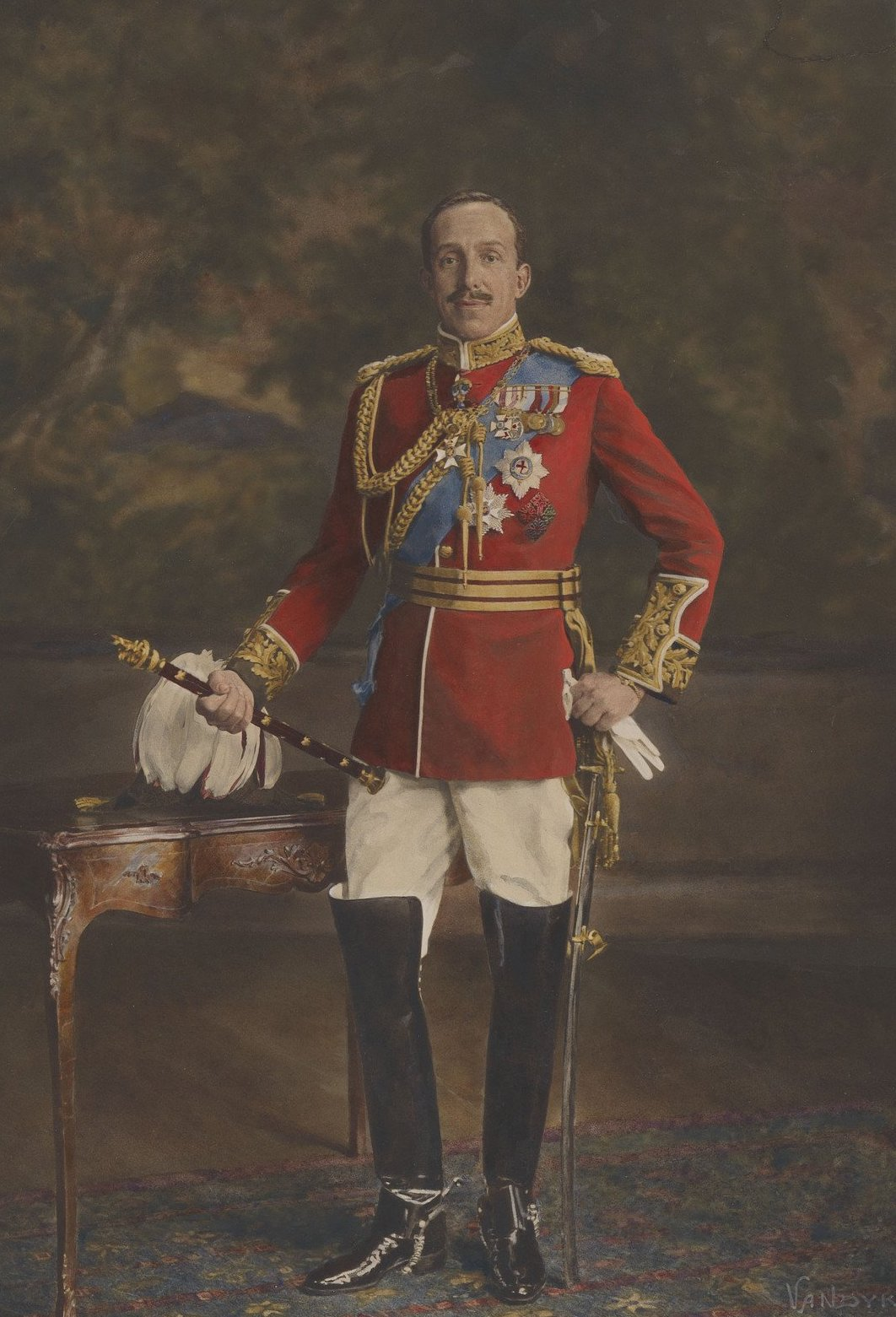 Coloured photograph of King Alfonso XIII of Spain in full length portrait wearing British Field Marshal's uniform. He stands with his left hand on his hip and holds a baton in his right hand. Plumed hat on table.